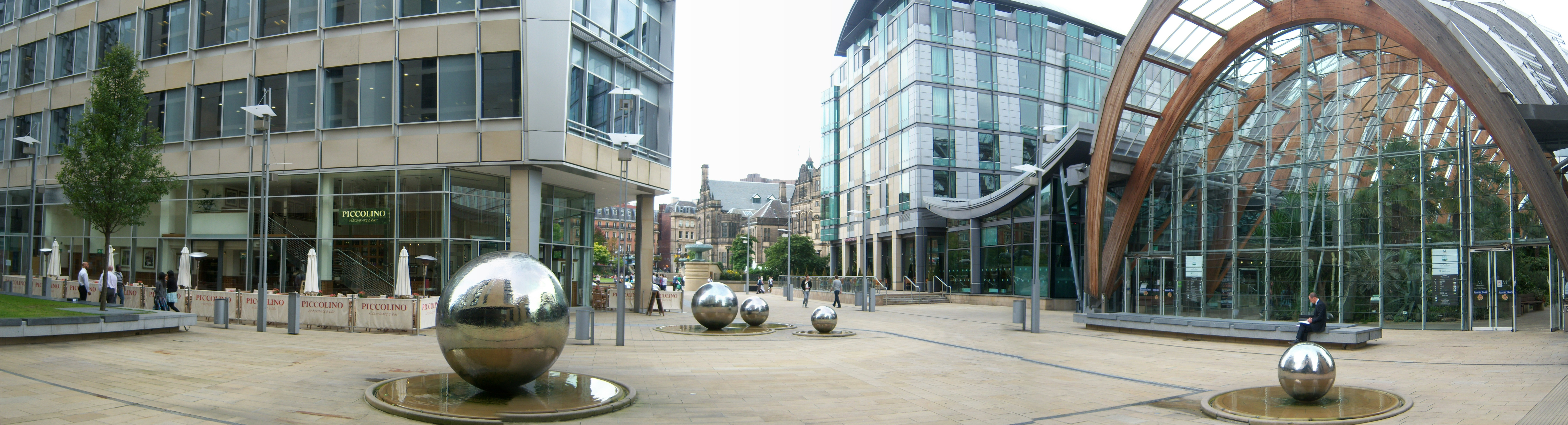 Millennium Square, Sheffield, UK